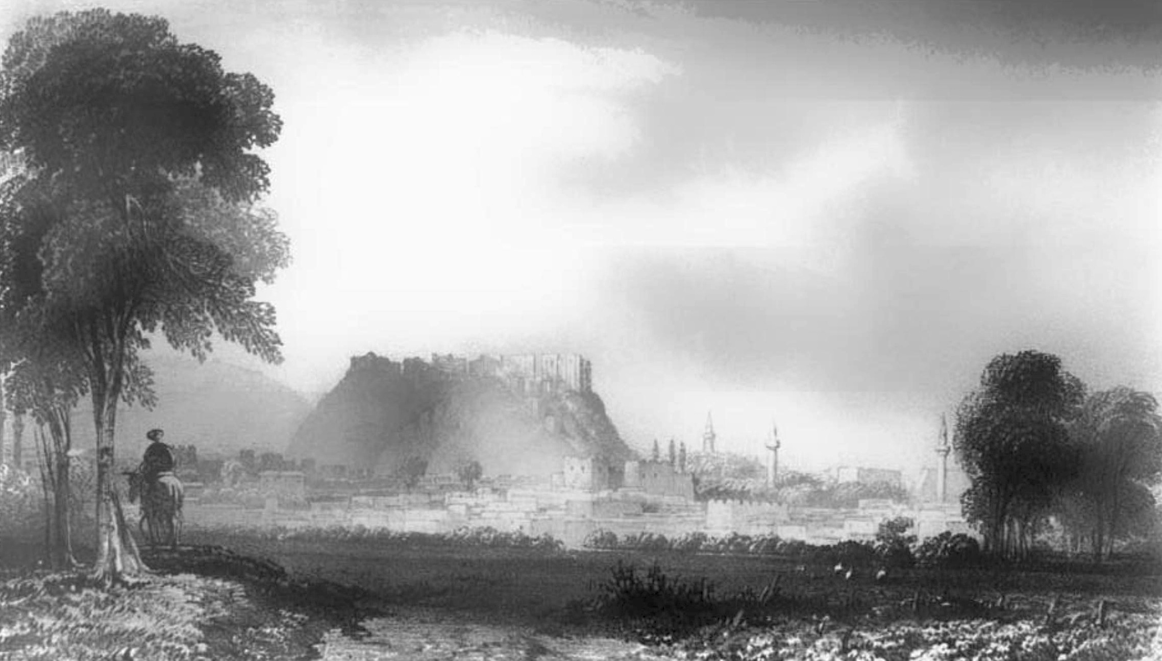 Ayntab in the 19th century, from F. R. Chesney, The Expedition for the Survey of the Rivers Euphrates and Tigris, London 1850